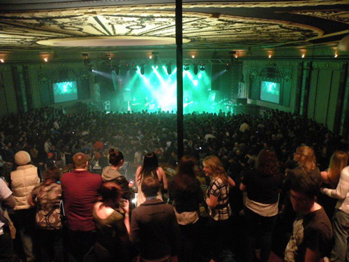 Inside the rapids theatre during the Deftones concert